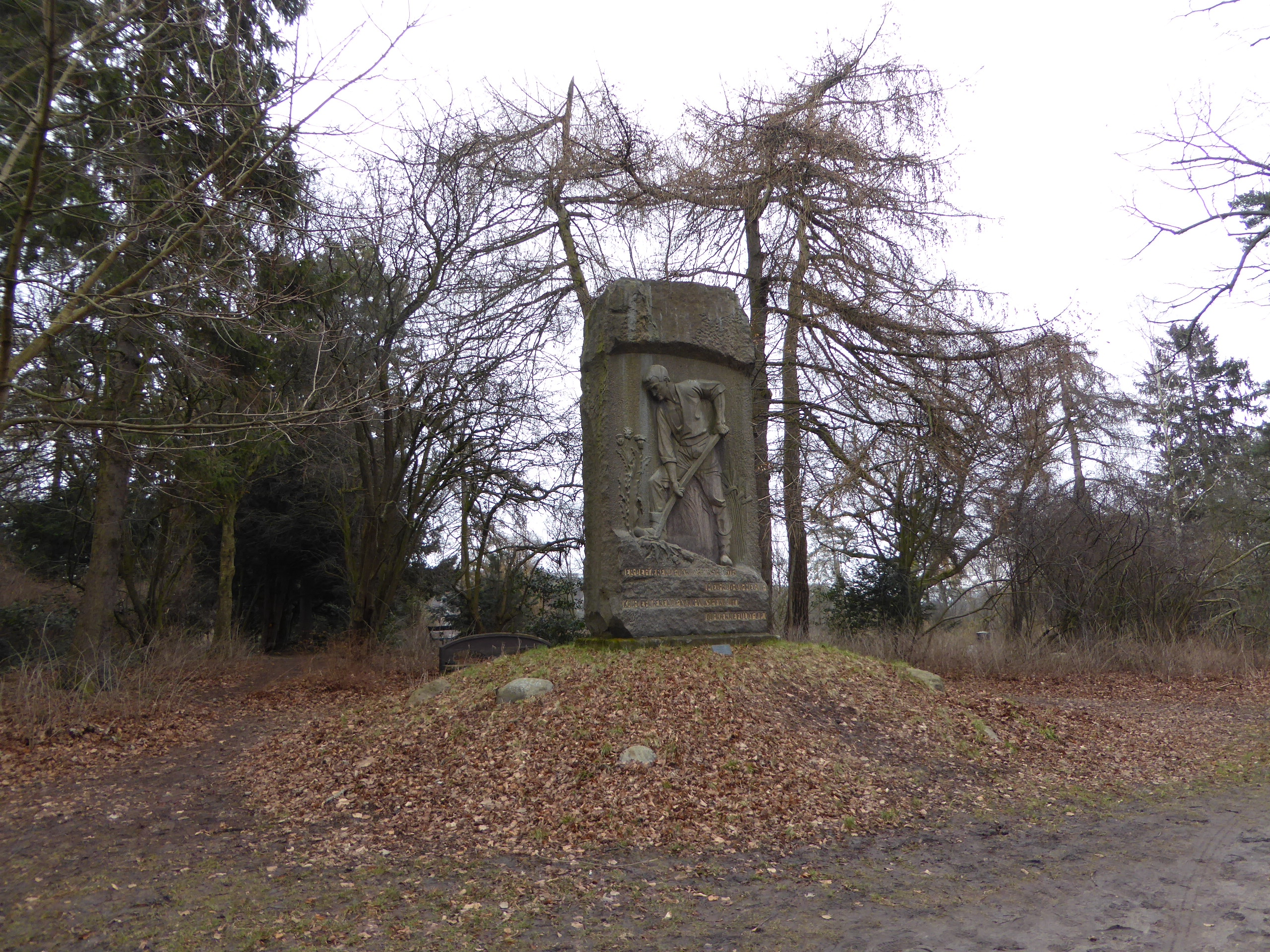 Monument for Ole Syversen at Edel Sauntes Allé in Østerbro in Copenhagen. Ole Syversen (1801-1847) founded the first Danish temperance movement in 1843. The monument was created by Rikard Magnussen (1885-1948) and put up by Danish teetotalers in 1914.